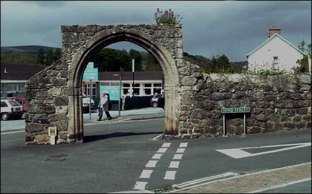 Cromwells Arch, Bovey Tracey. Part of the original wall, this arch is all that remains. references to Cromwell and William of Orange are to be found throughout the area.